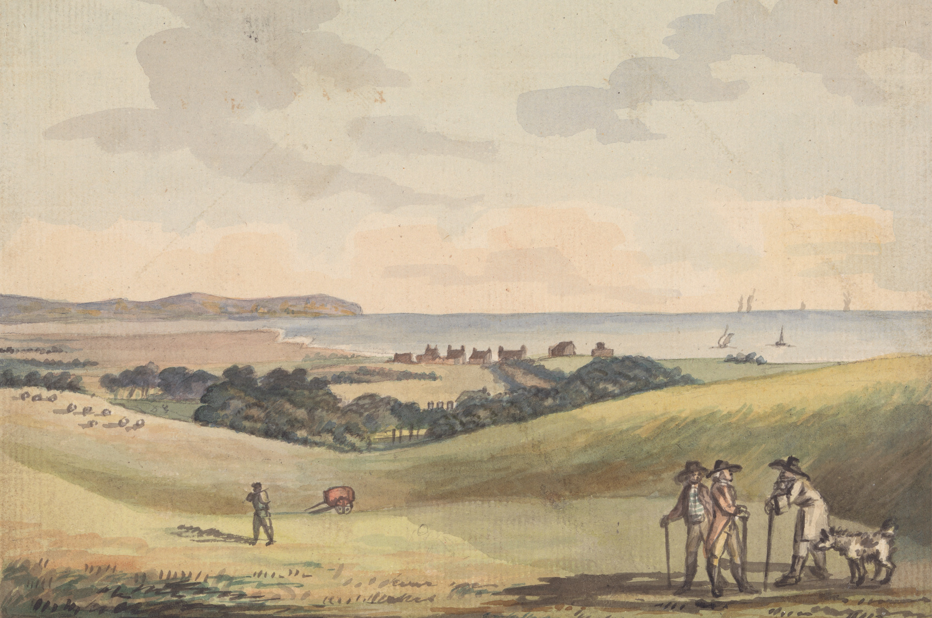 "Eastbourne from Lord G.: Cavendish's Seat in the Park," by the British artist John Nixon, pen, grey ink and watercolour. Dated 1787. 5 5/16 in. x 7 1/2 in. (13.5 cm x 19.1 cm). Courtesy of the Paul Mellon Collection, Yale Center for British Art, Yale University, New Haven, Connecticut.